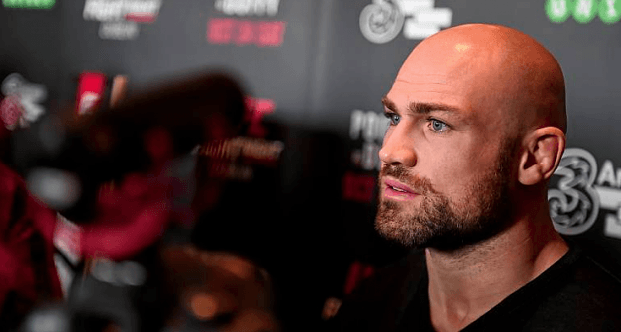 Picture of Cathal Pendred being interviewed on the red carpet